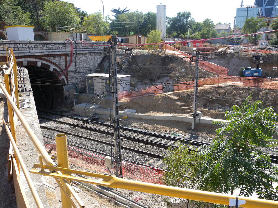 North end of the Túnel de la Risa first tunnel in Chamartin station (Madrid, Spain)